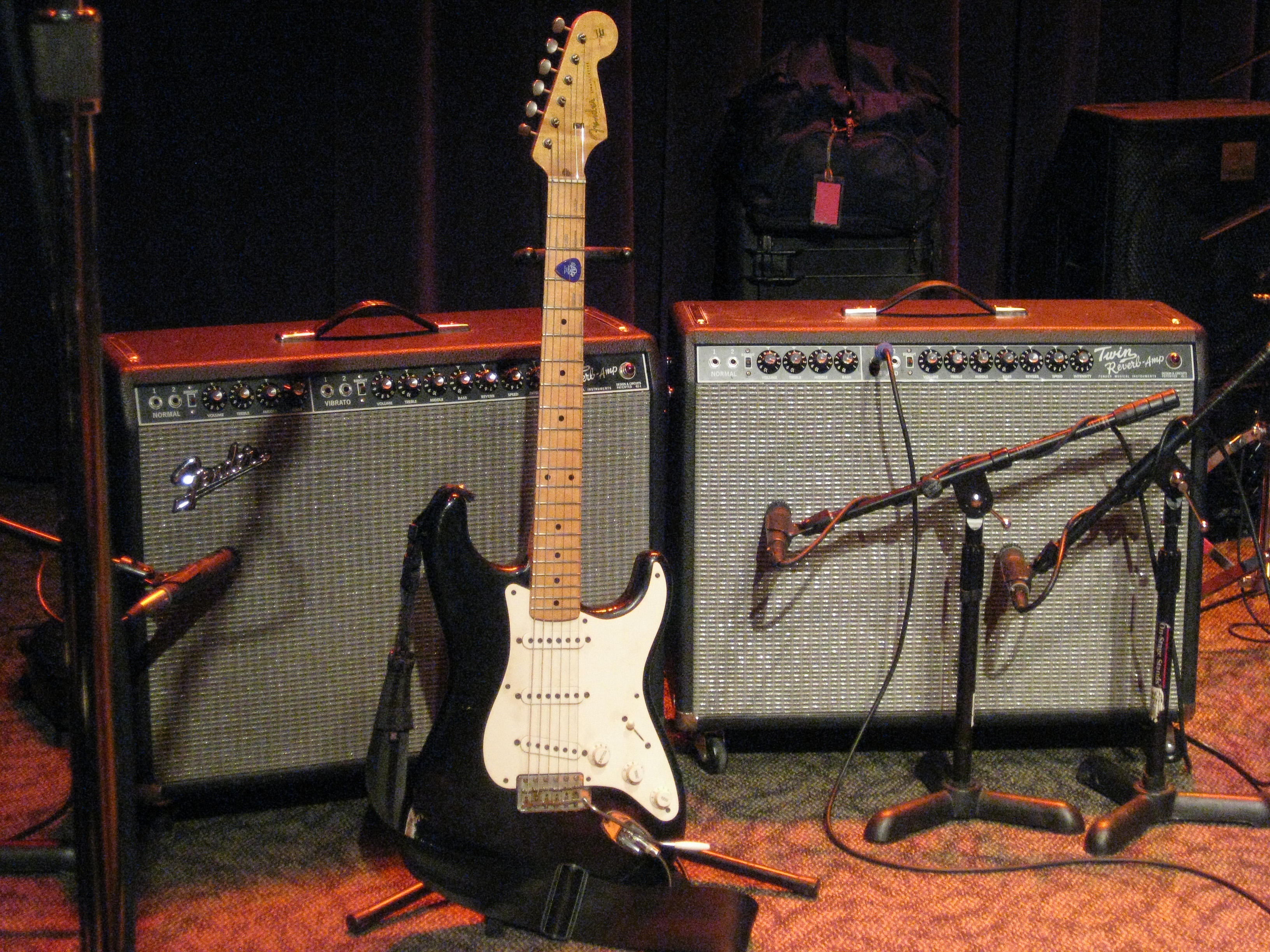 Oz Noy Trio - Jazz Alley, Seattle - Feb. 1, 11